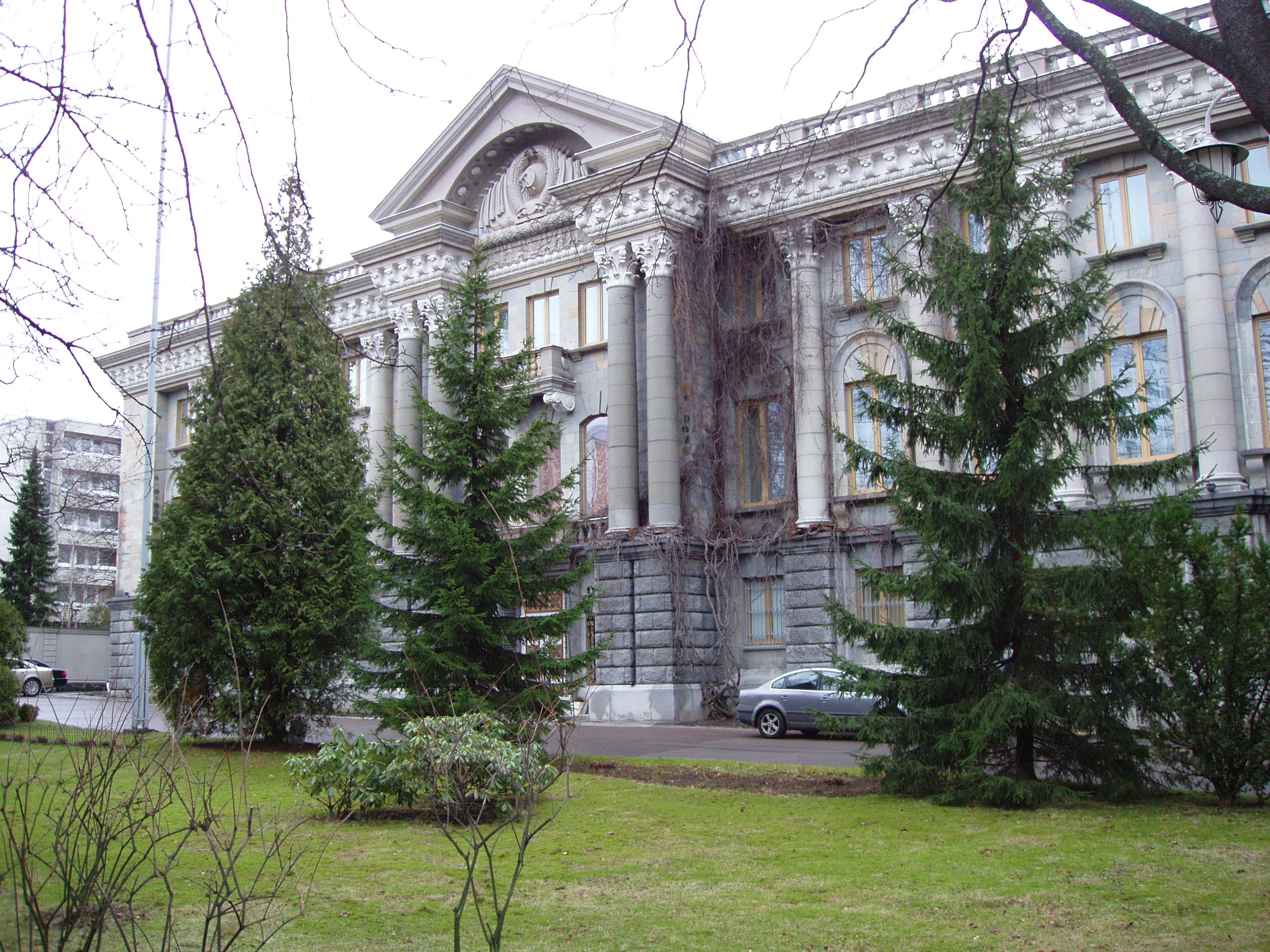 Embassy of the Russian Federation in Finland, Helsinki, by E.S. Grebenshtshikov, 1952.